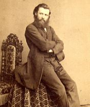 Belgian painter Franz Vinck (cropped)